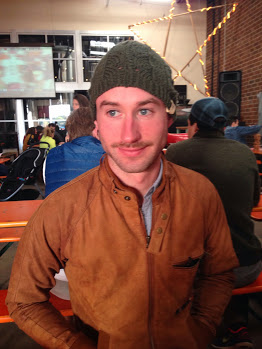 A Man in Suede